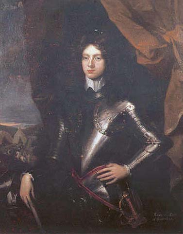 Portrait of Henry Spencer, 1st Earl of Sunderland and 3rd Baron Spencer (1620-1643)